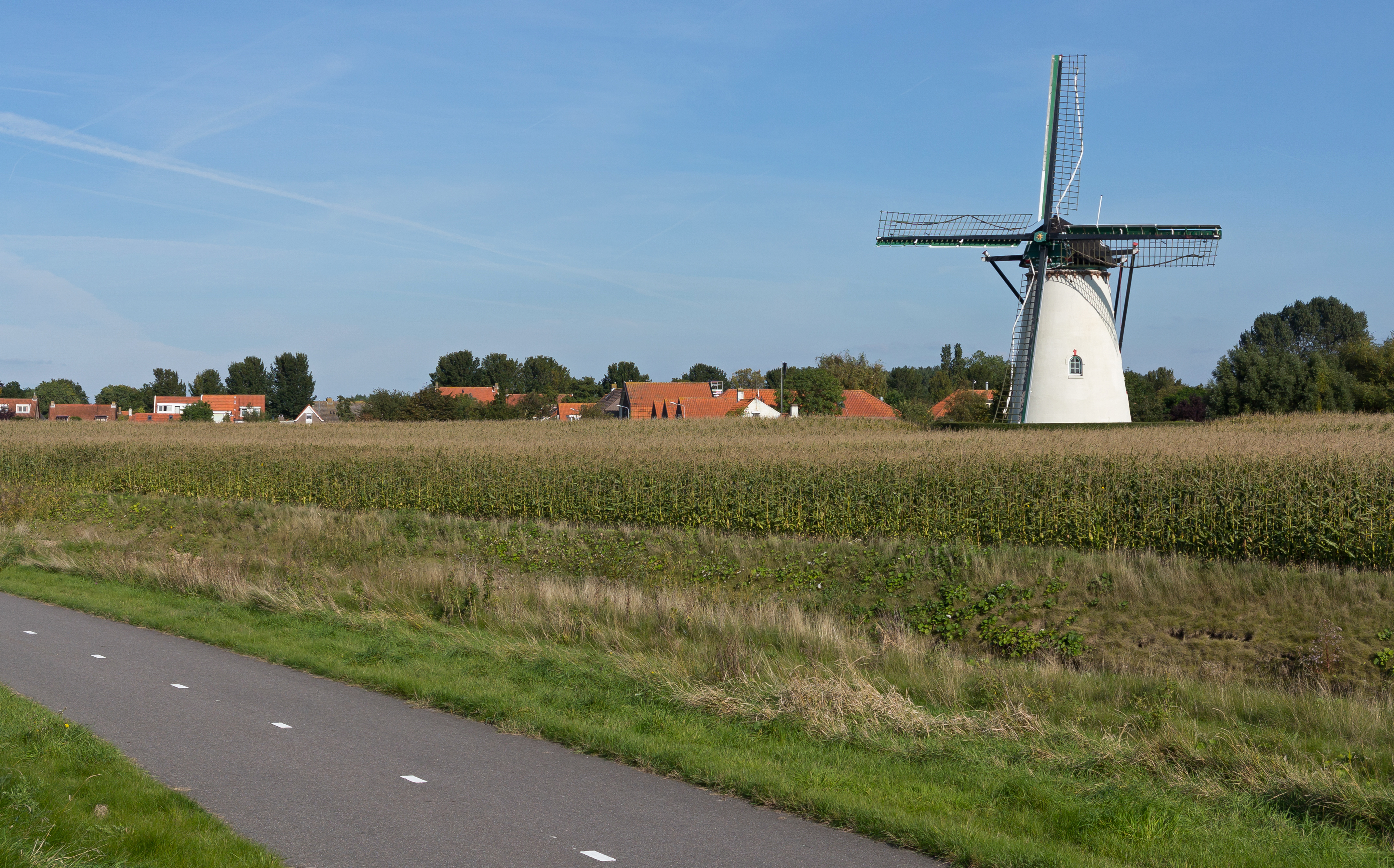 Nieuw- en Sint Joosland, windmill: korenmolen Buiten Verwachting